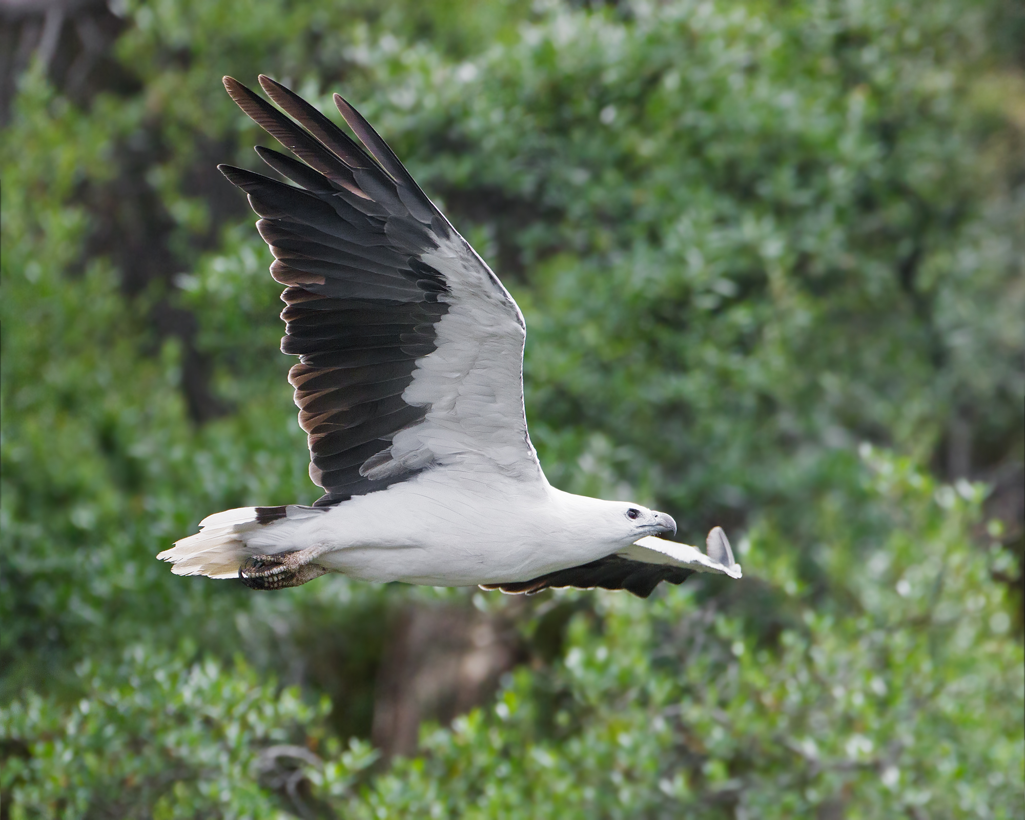 White-bellied Sea Eagle (Haliaeetus leucogaster), Derwent River Estuary, Tasmania, Australia